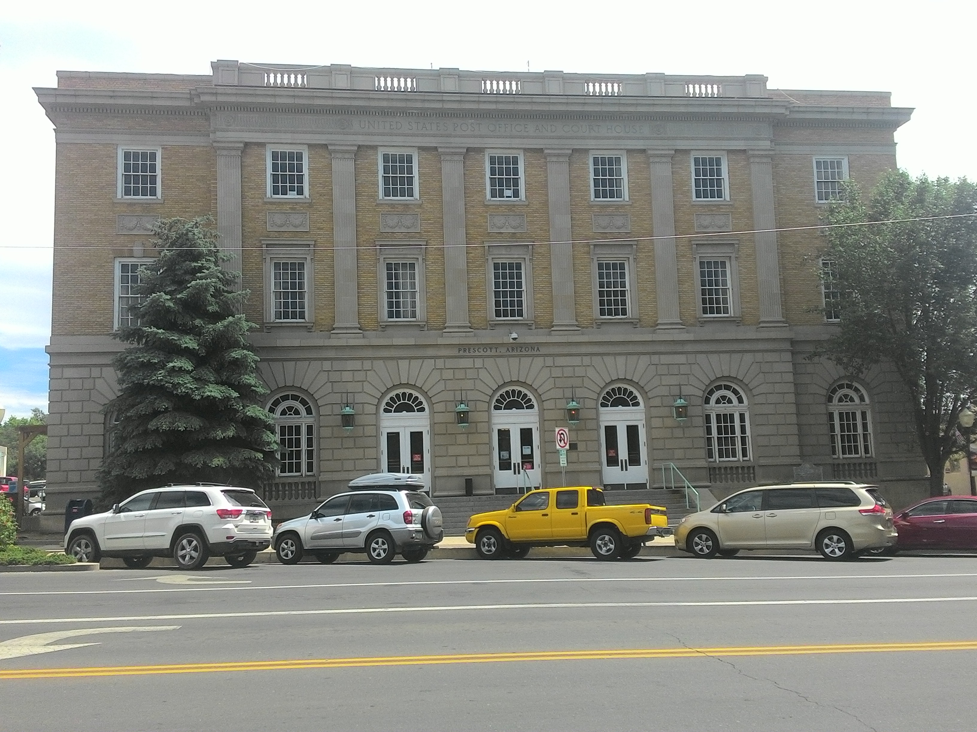 United States Post Office and Courthouse–Prescott Main front (north) view